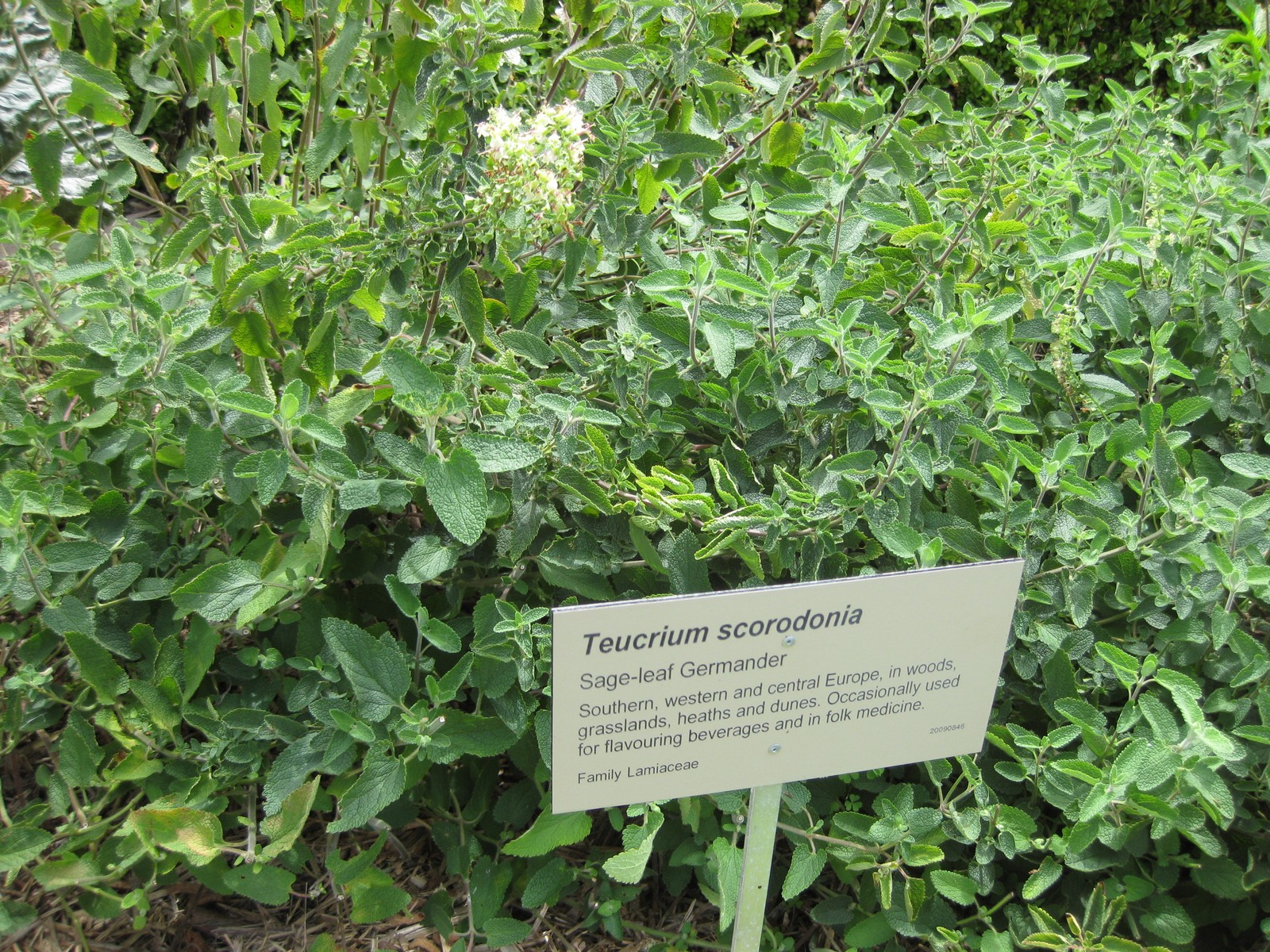 Photographed at the Royal Botanic Gardens Sydney (Australia) in January